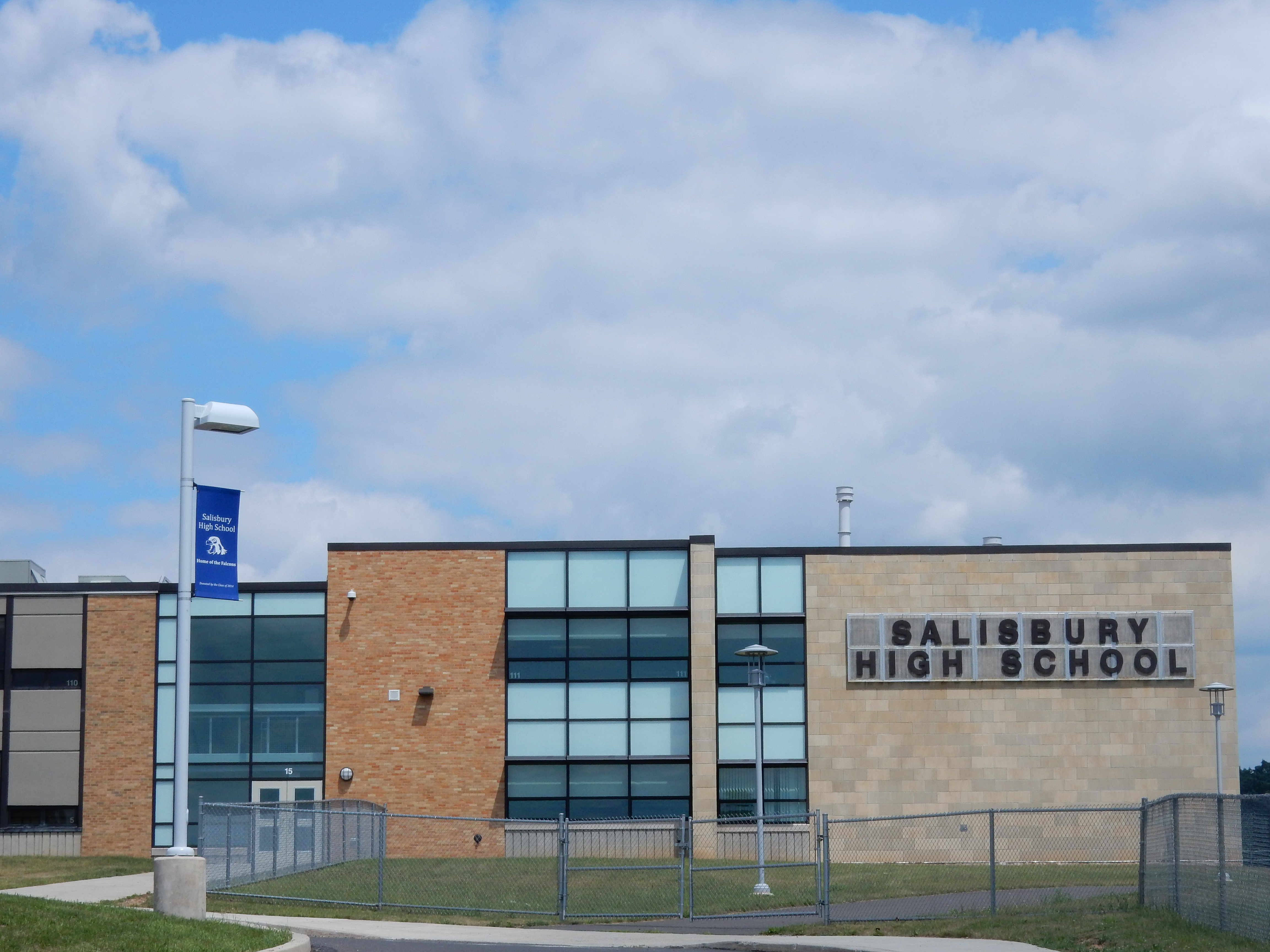 Salisbury High School, 500 East Montgomery Street, Salisbury Township, Lehigh County, Pennsylvania.